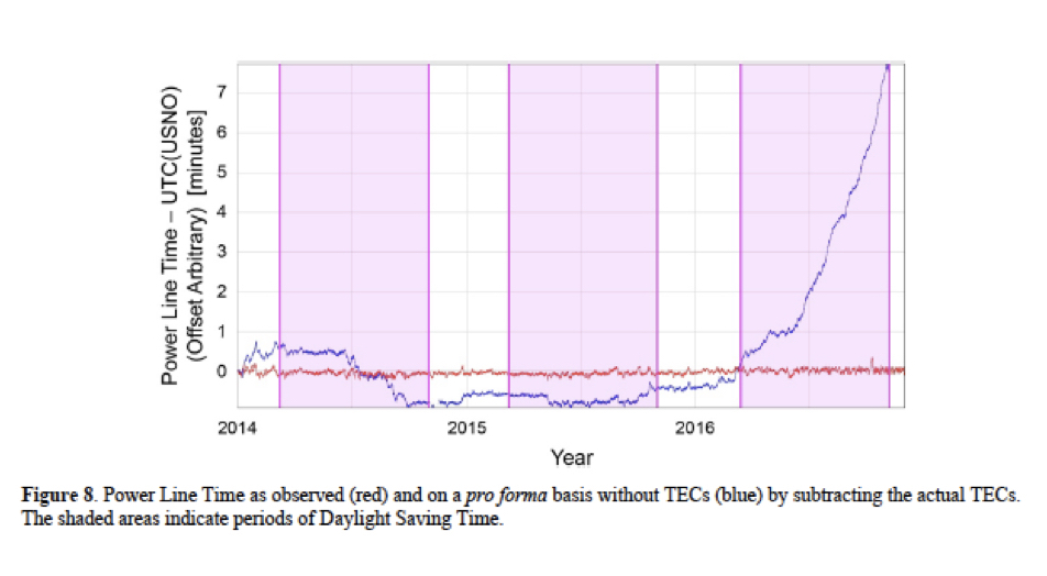 Figure 8 of a technical publication by Hardis, Fonville, and Matsakis